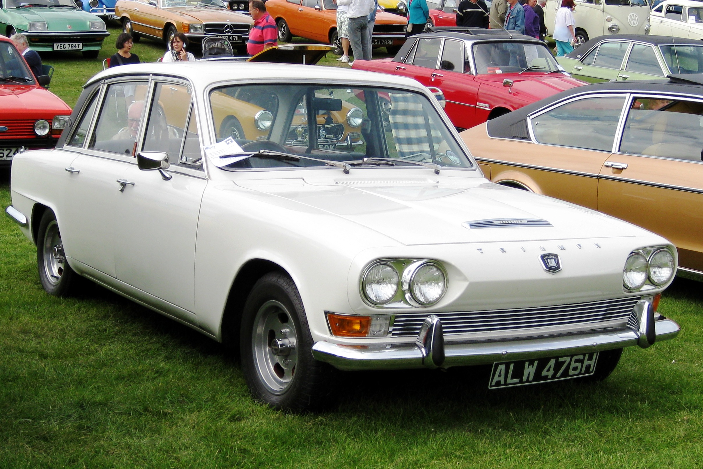 Triumph 2.5 PI Mk I. This car was first registered just a couple of months before the MK I version was replaced by the Mk II version with its more conventional frontal styling